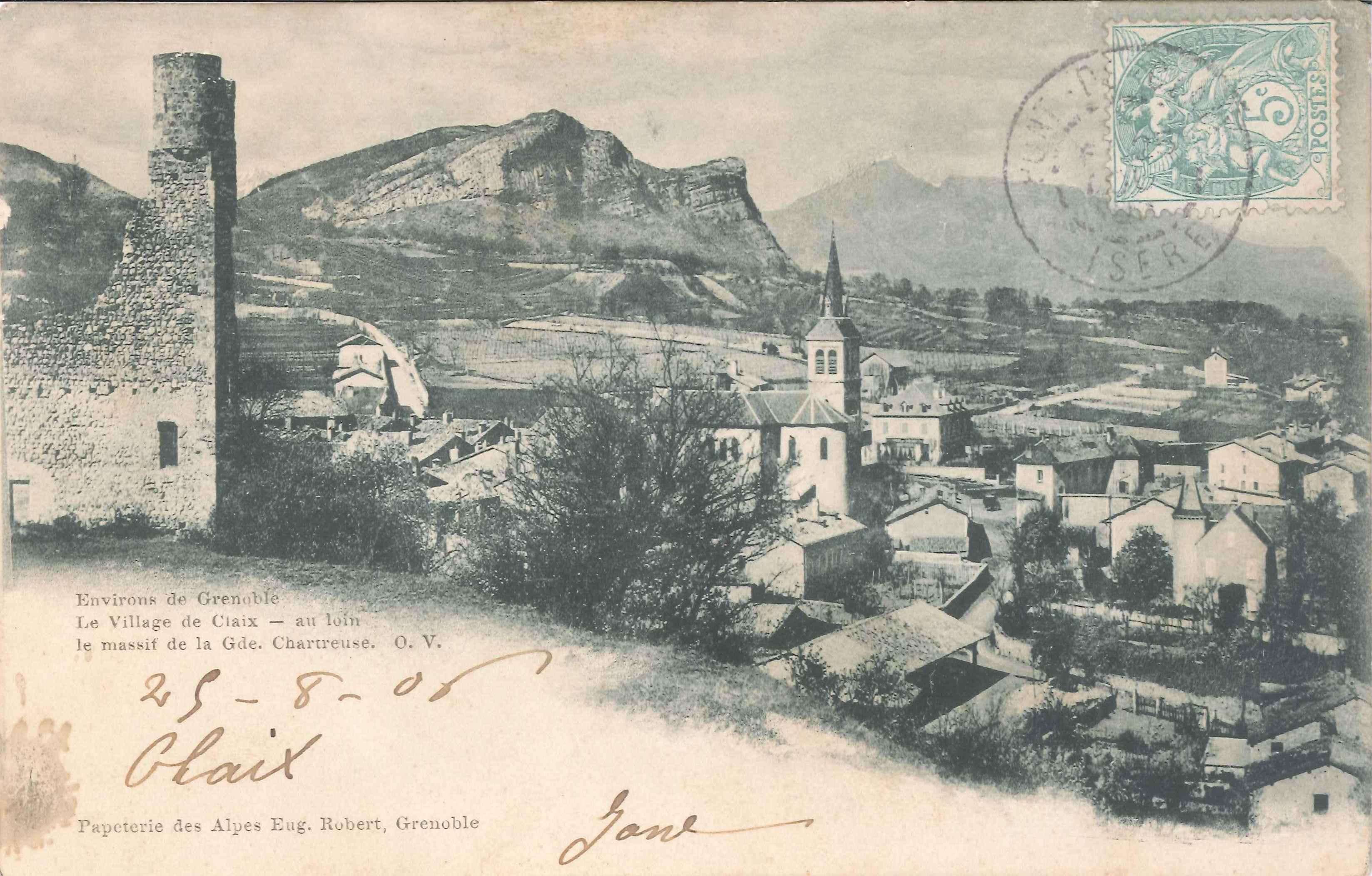 City of Claix, France, before 1906